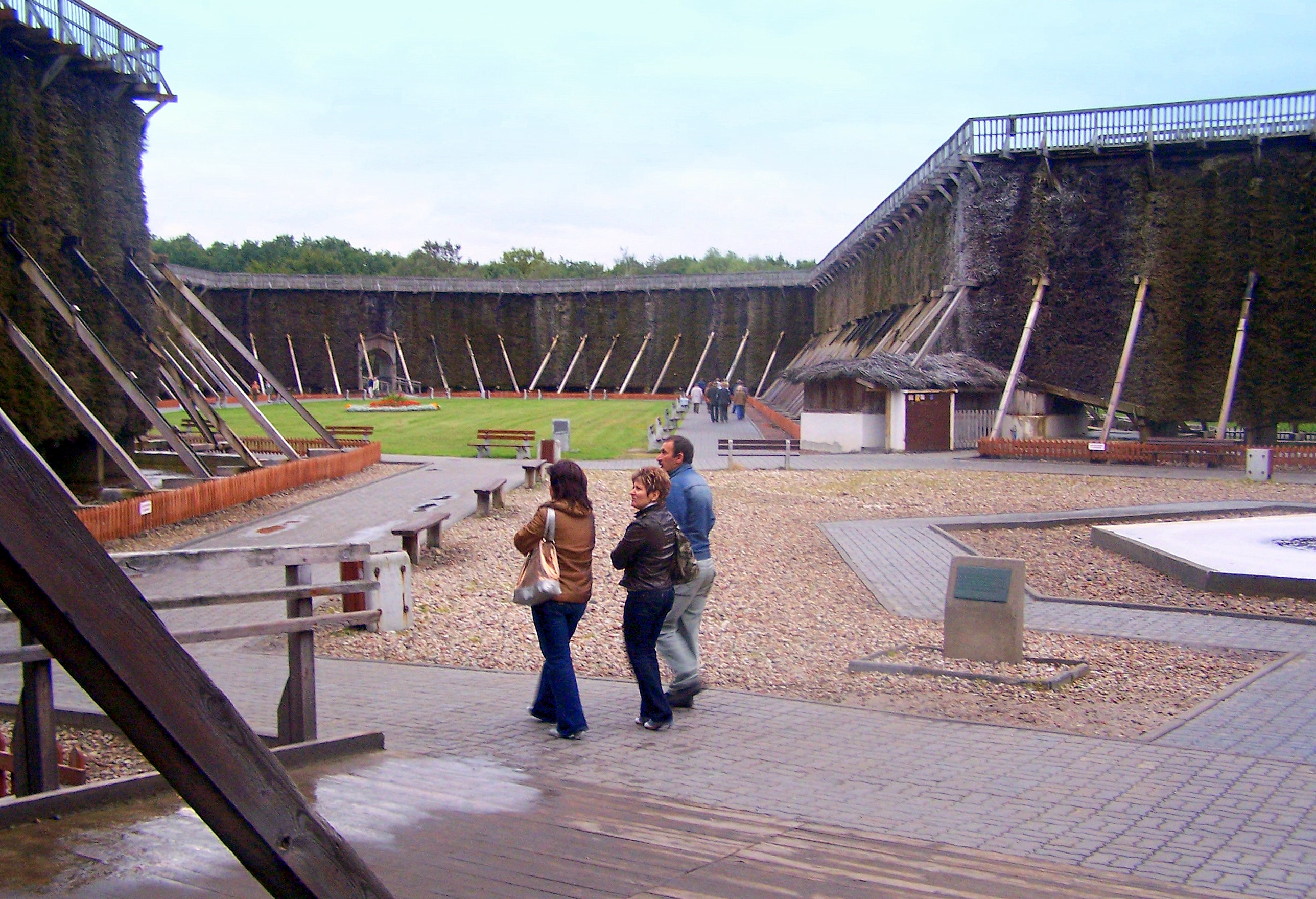 Inowrocław Graduation tower